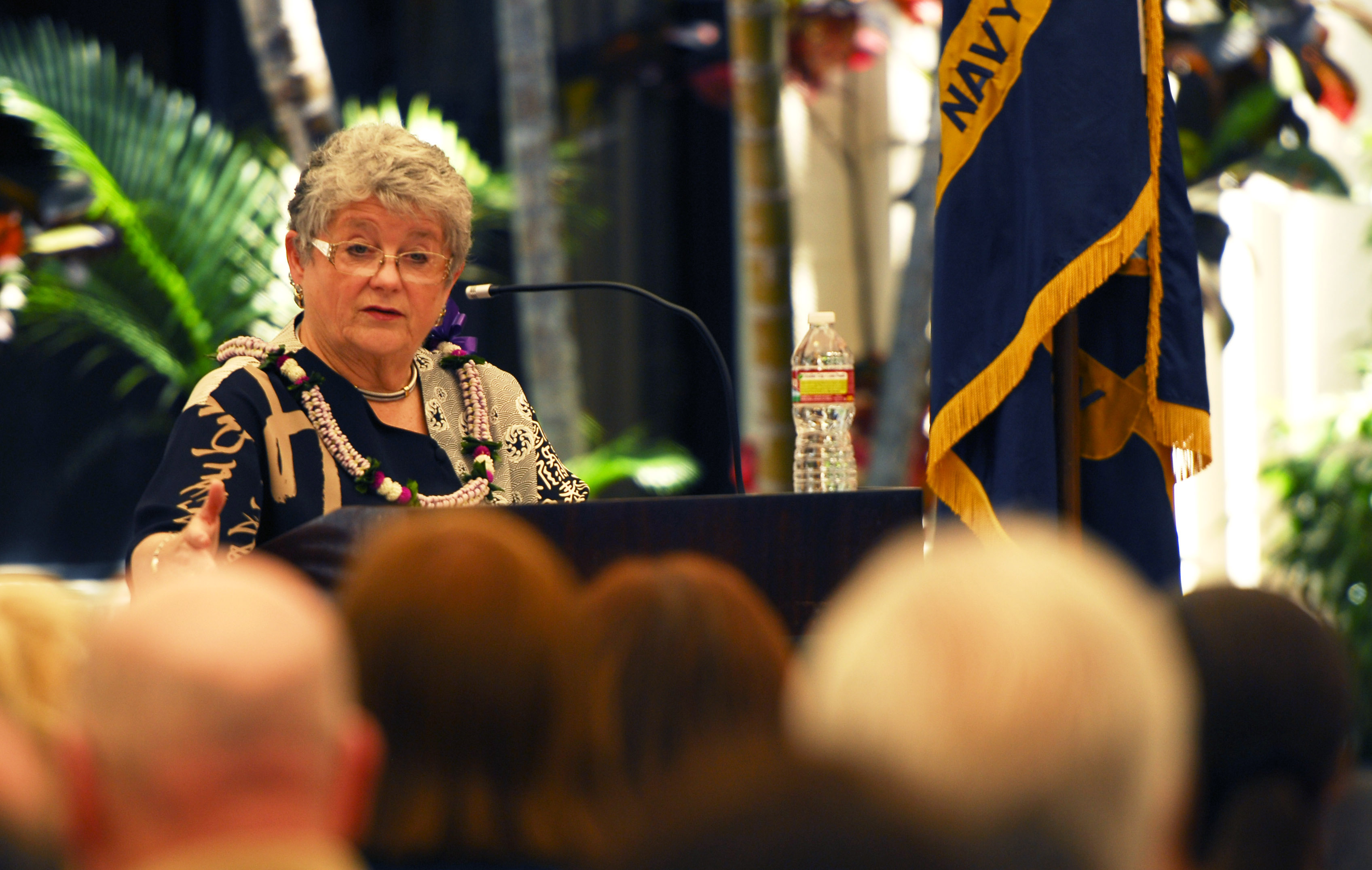 PEARL HARBOR (April 12, 2011) Dr. M. R. C. Greenwood, the 14th president of the 10-campus University of Hawaii, speaks to Navy leadership at the Learn from the Leaders speaking event sponsored by the Workforce Development team of Commander Navy Region Hawaii. (U.S. Navy photo by Mass Communication Specialist 2nd Class Mark Logico/Released)